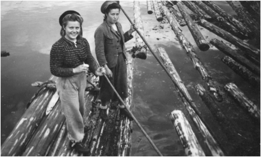 floating women at work